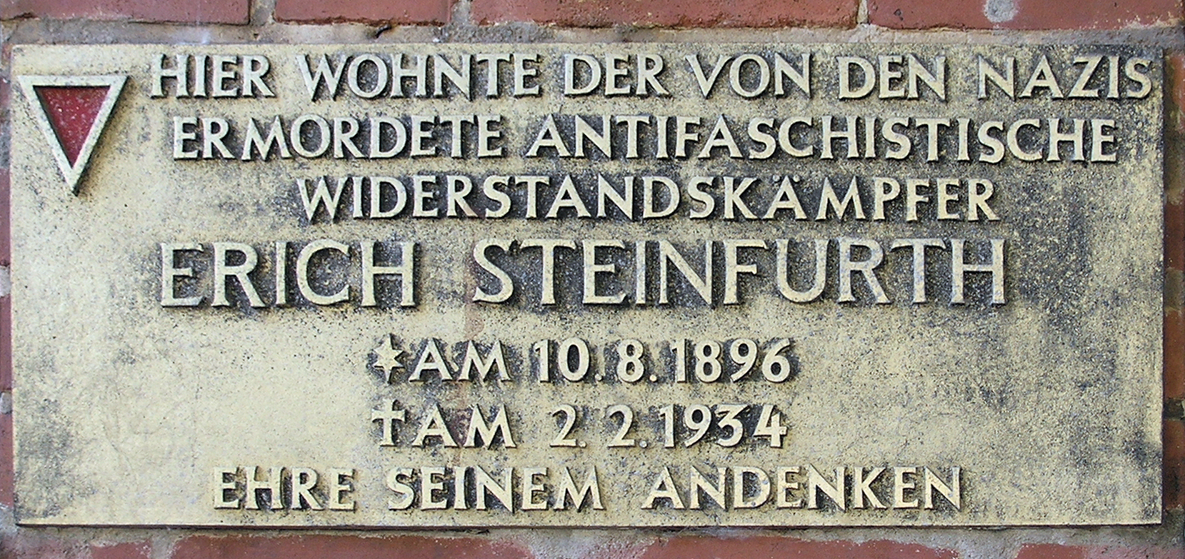 Memorial plaque, Erich Steinfurth, Friedlander Straße 139, Berlin-Adlershof, Germany Koordinate:52°26′30″N 13°32′56″E / 52.44167°N 13.54889°E